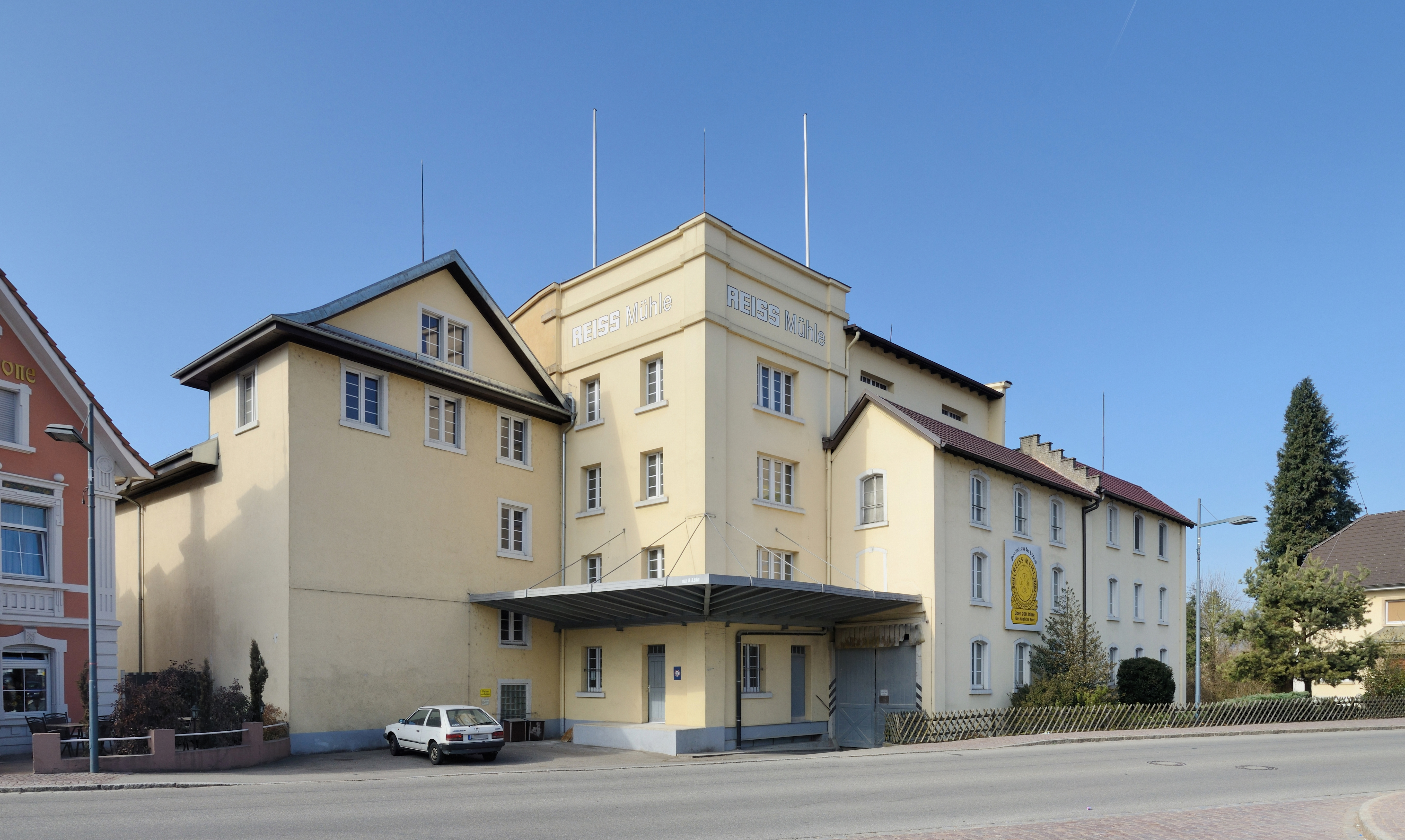 Lörrach-Brombach: "Reiss" mill (in service from 1782 til 2019)